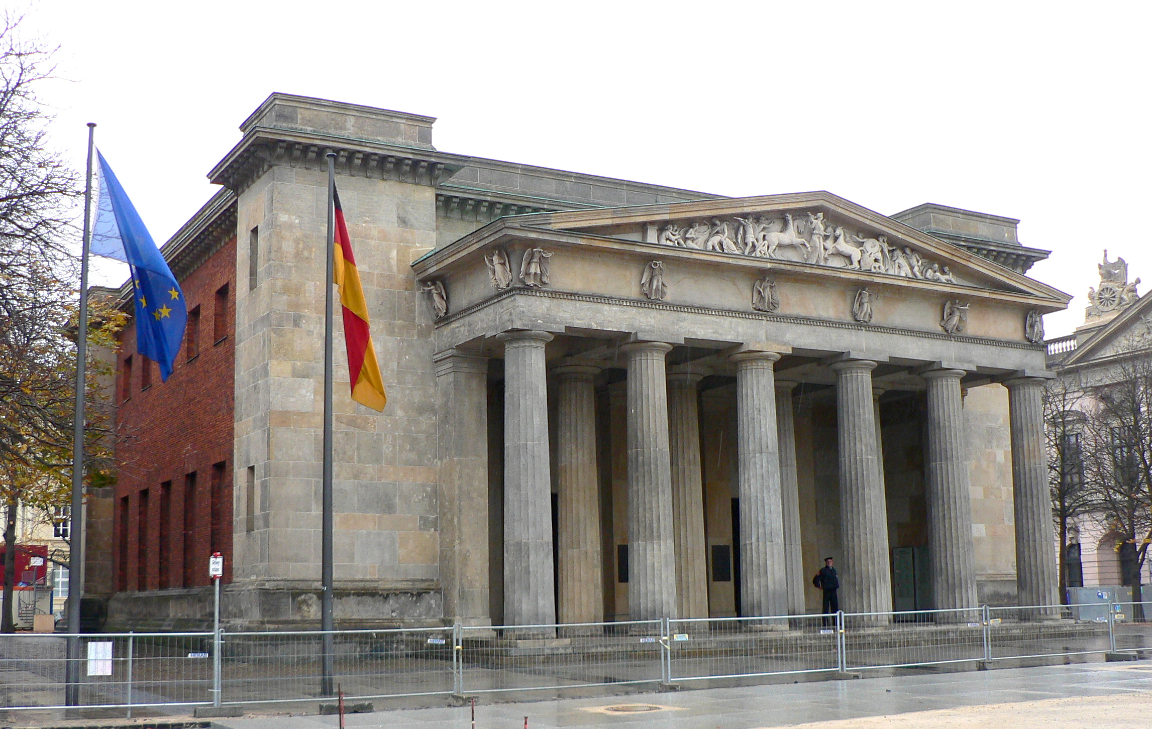 New Guard House (Neue Wache), Berlin